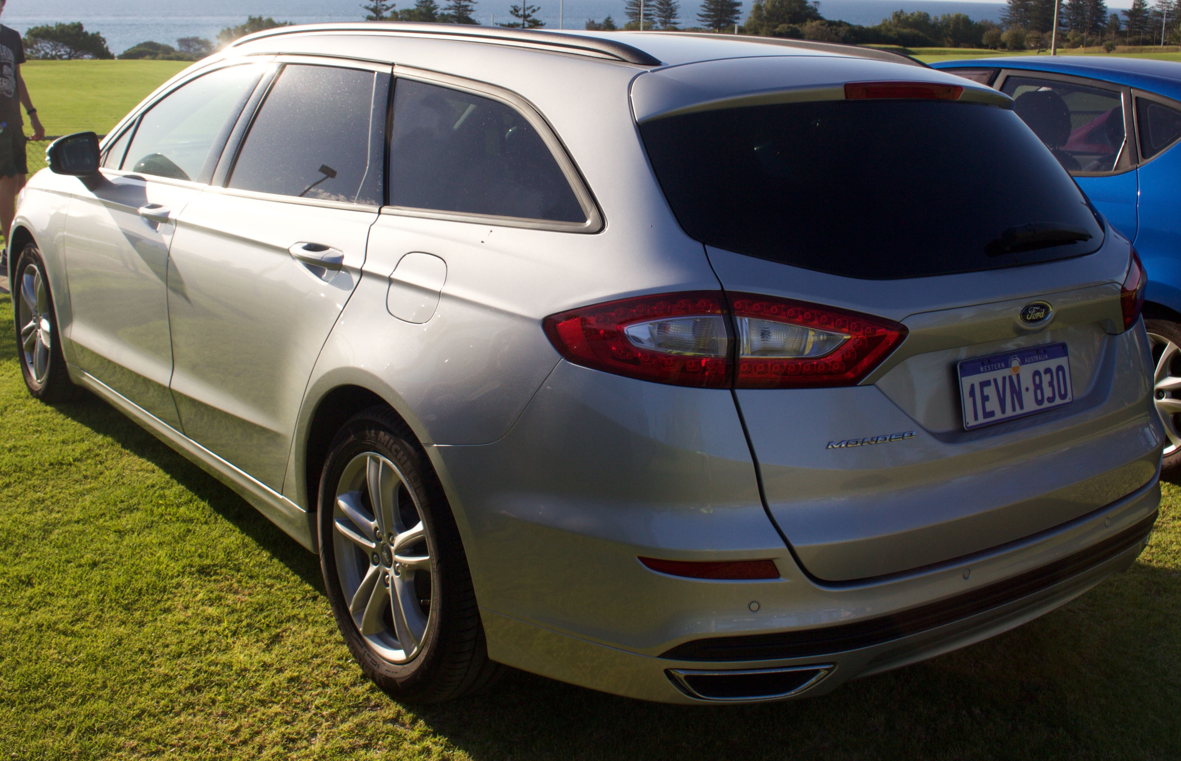 2015 Ford Mondeo (MD) Ambiente station wagon. Photographed in Cottesloe, Western Australia Australia.